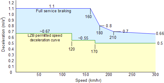 Deceleration curve of the ICE3 train with full service braking and the deceleration curve required by LZB. Based on information from "The Linear Eddy-Current Brake of the ICE 3" by Dr.-Ing. Wolf-Dieter Meler-Credner and Dipl.-Ing. Johannes Gräber, published in Railway Technical Review (RTR), April, 2003.